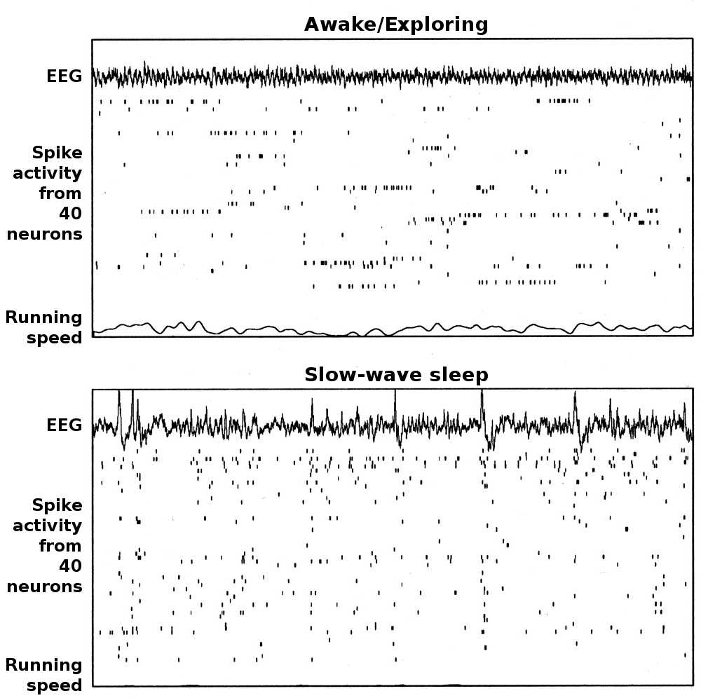 Examples of rat hippocampal EEG and CA1 neural activity in the theta (awake/behaving) and LIA (slow-wave sleep) modes. Each plot show 20 seconds of data, with a hippocampal EEG trace at the top, spike rasters from 40 simultaneously recorded CA1 pyramidal cells in the middle, and a plot of running speed at the bottom.